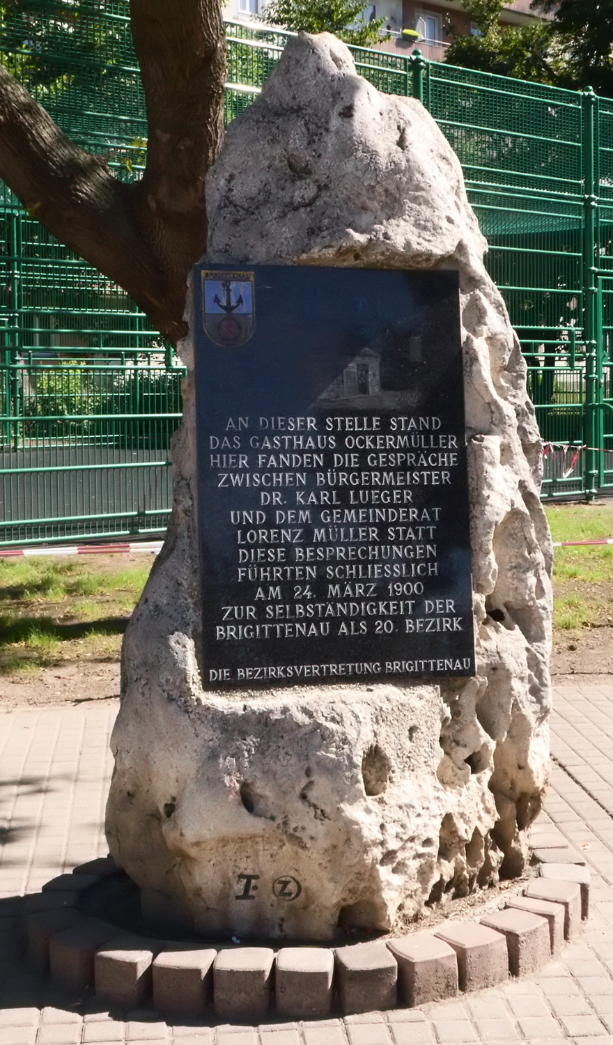 Market Hannovermarkt in Vienna Brigittenau